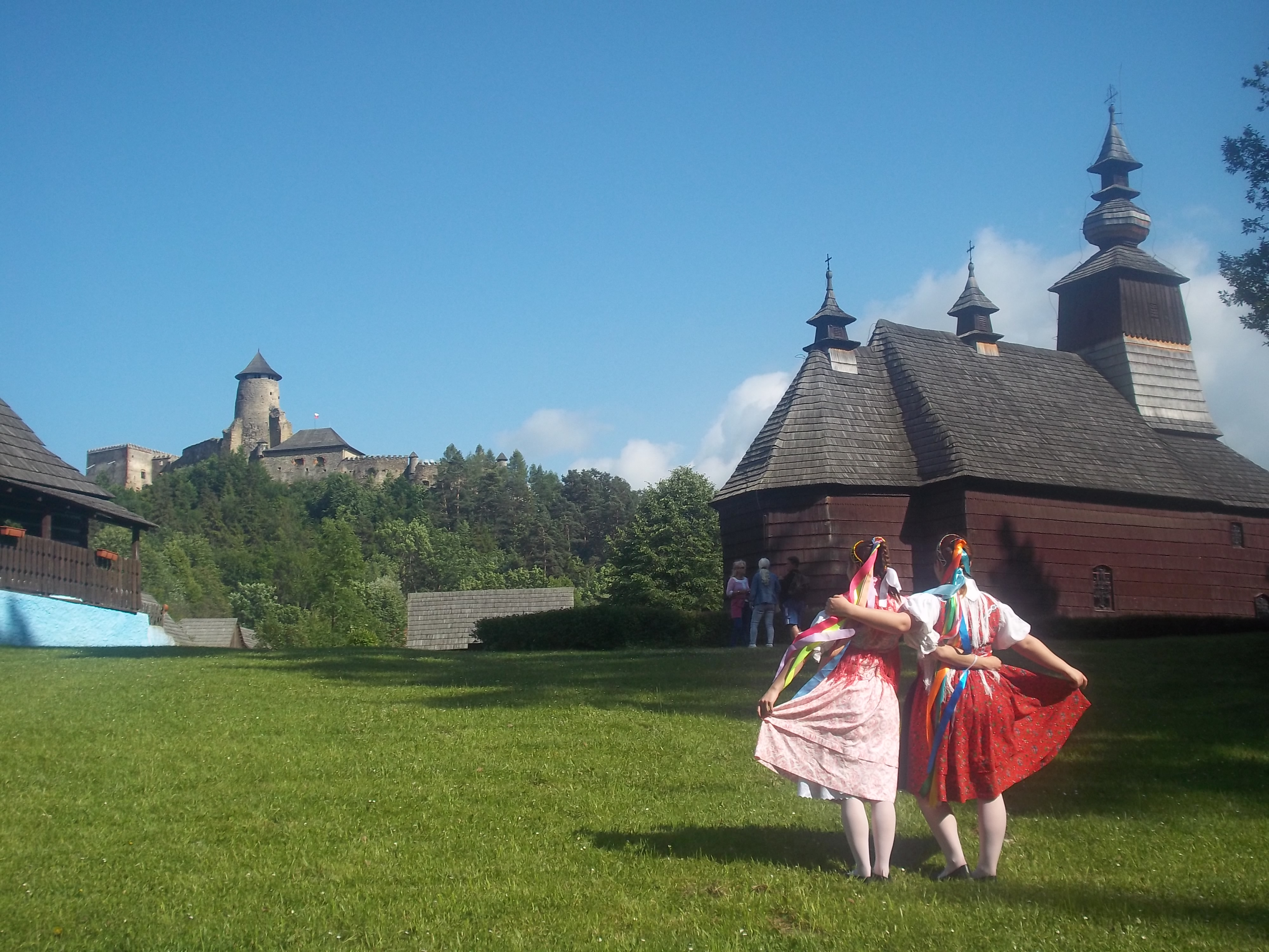 Skansen w Starej Lubowni (Stará Ľubovňa). Słowacja. Po prawej stronie widoczny jest kościół grekokatolicki z Matysovej.